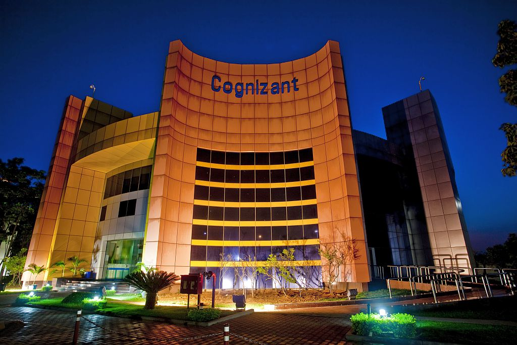 Cognizant's Delivery Center in Chennai- TCO